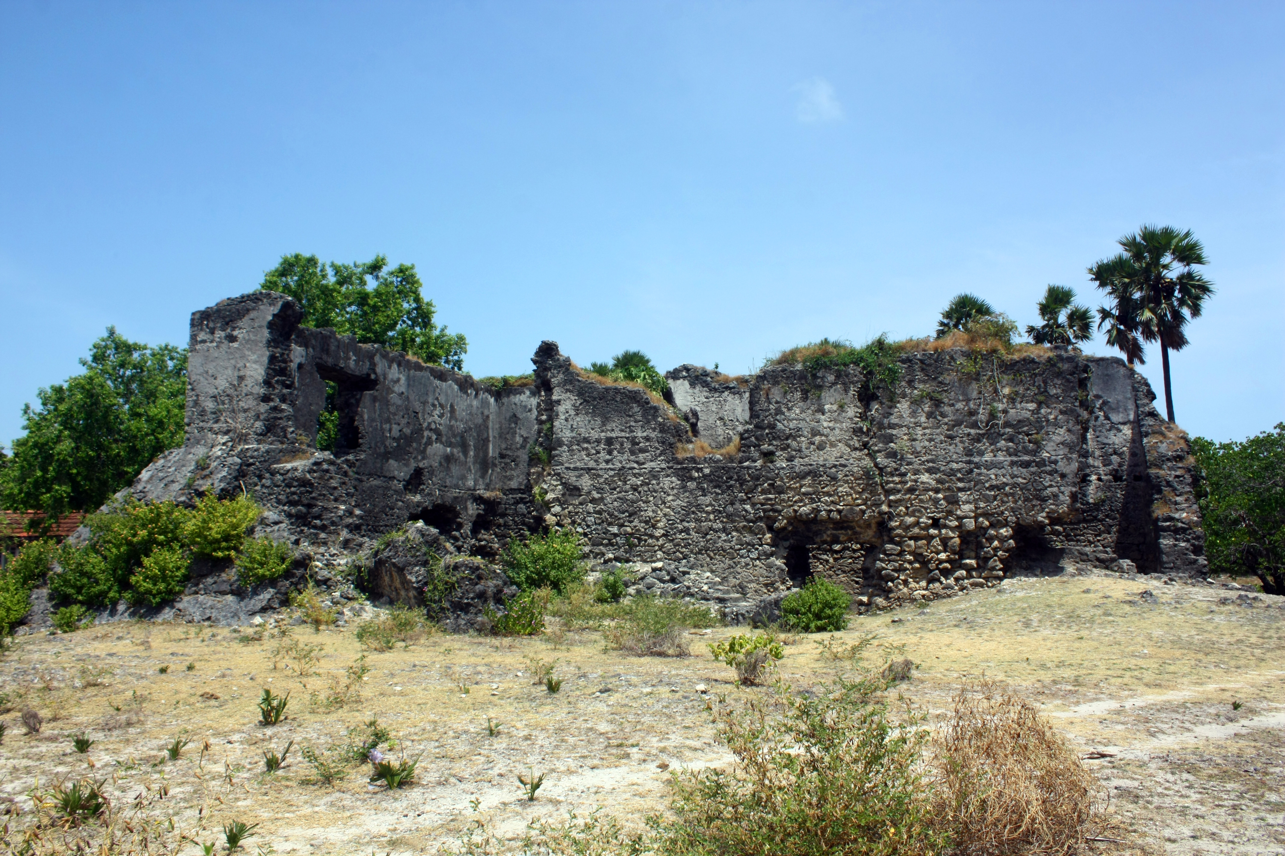 Delft Island fort (Meekaman or Meegaaman fort)